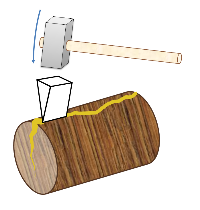 wood splitting wedge